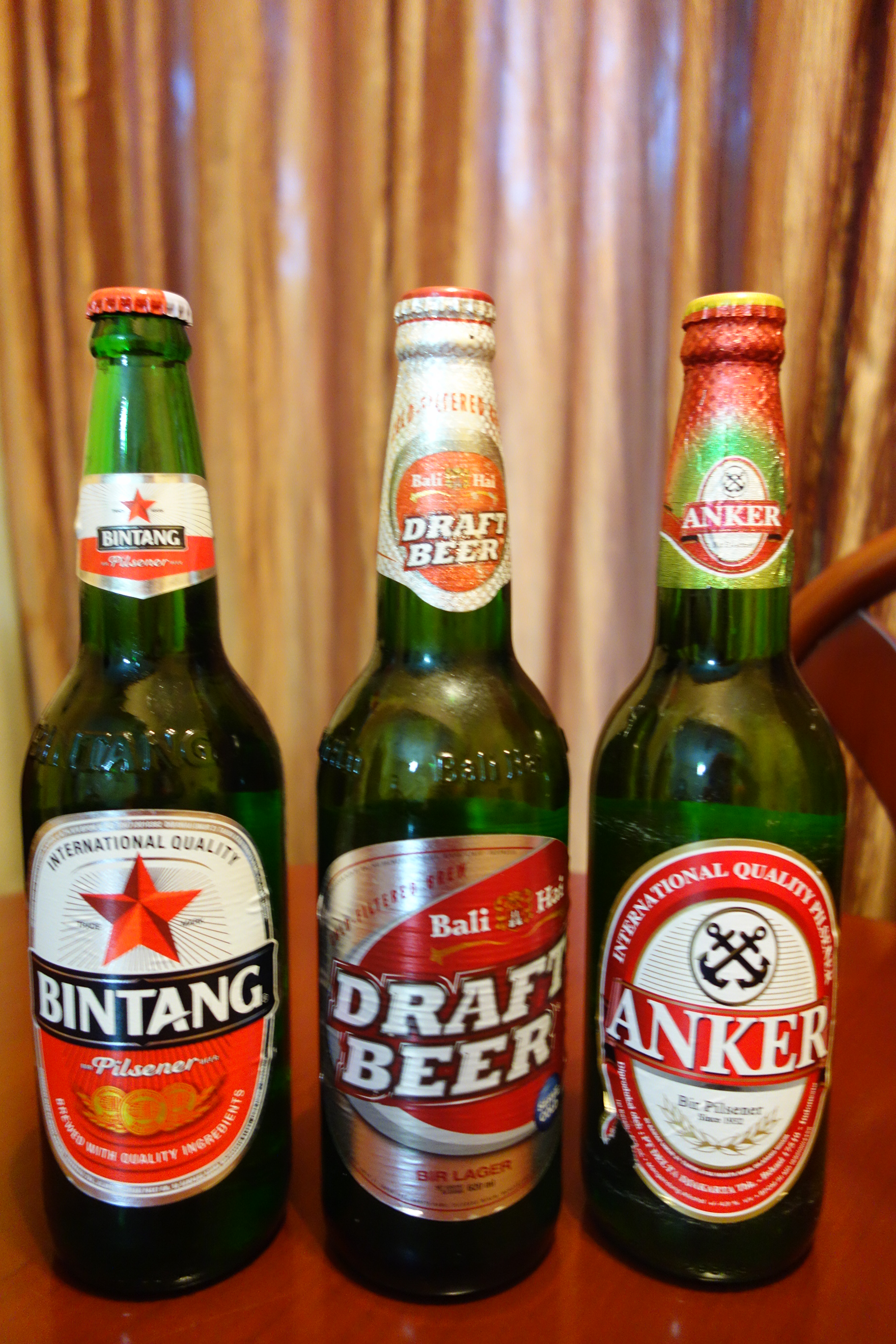 Three brands of Indonesian national beer